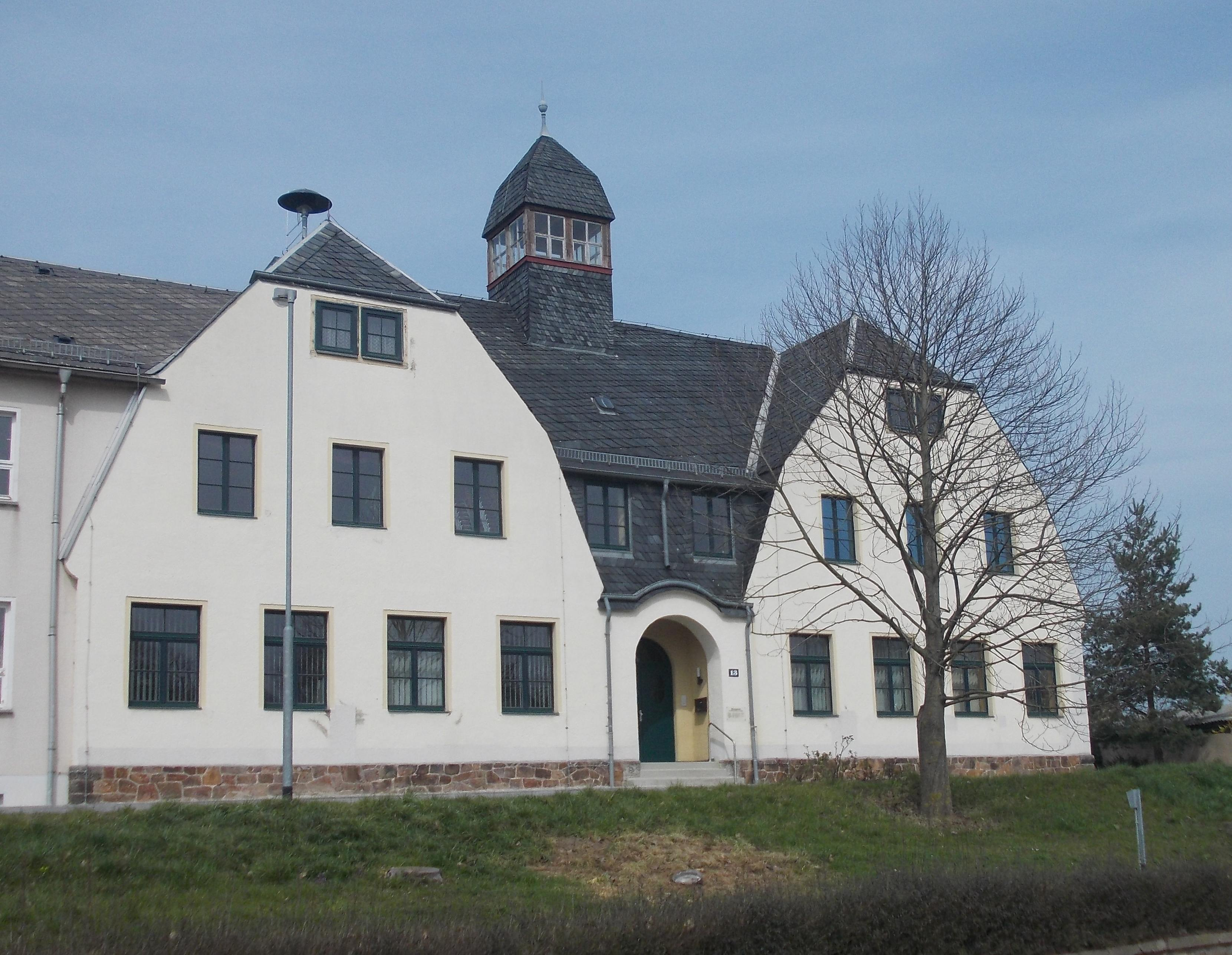 Municipal offices of Striegistal in Etzdorf (Mittelsachsen district, Saxony)